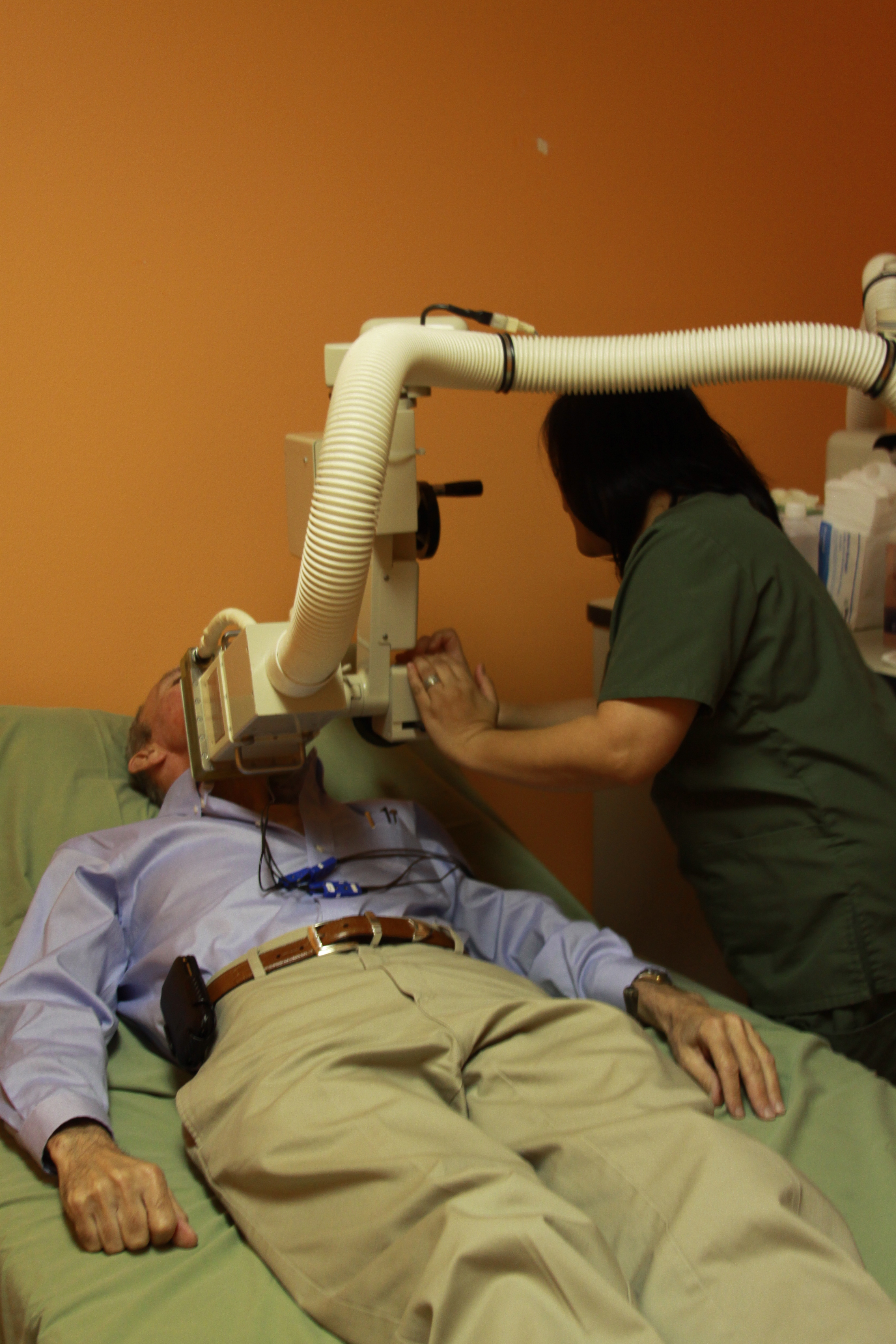 Patient is undergoing local hyperthermia treatment for head and neck cancer. Pictured ultrasound machine is made by LabThermic Technologies. This machine works well on soft tissue and its penetration depth is about 8 cm. It works with two ultrasound frequencies: 1 MHz for deeper penetration (about 8 cm), and 3.4 MHz (up to 4 cm). The ultrasound vibration is transmitted to the tissue through a water bolus (a silicone bag) which allows it to raise the temperature in the tumor. The patient on the picture is being treated for head and neck cancer. The hyperthermia technician on the picture is adjusting the arm of the machine to aim the ultrasound vibrations in the bolus towards the tumor.